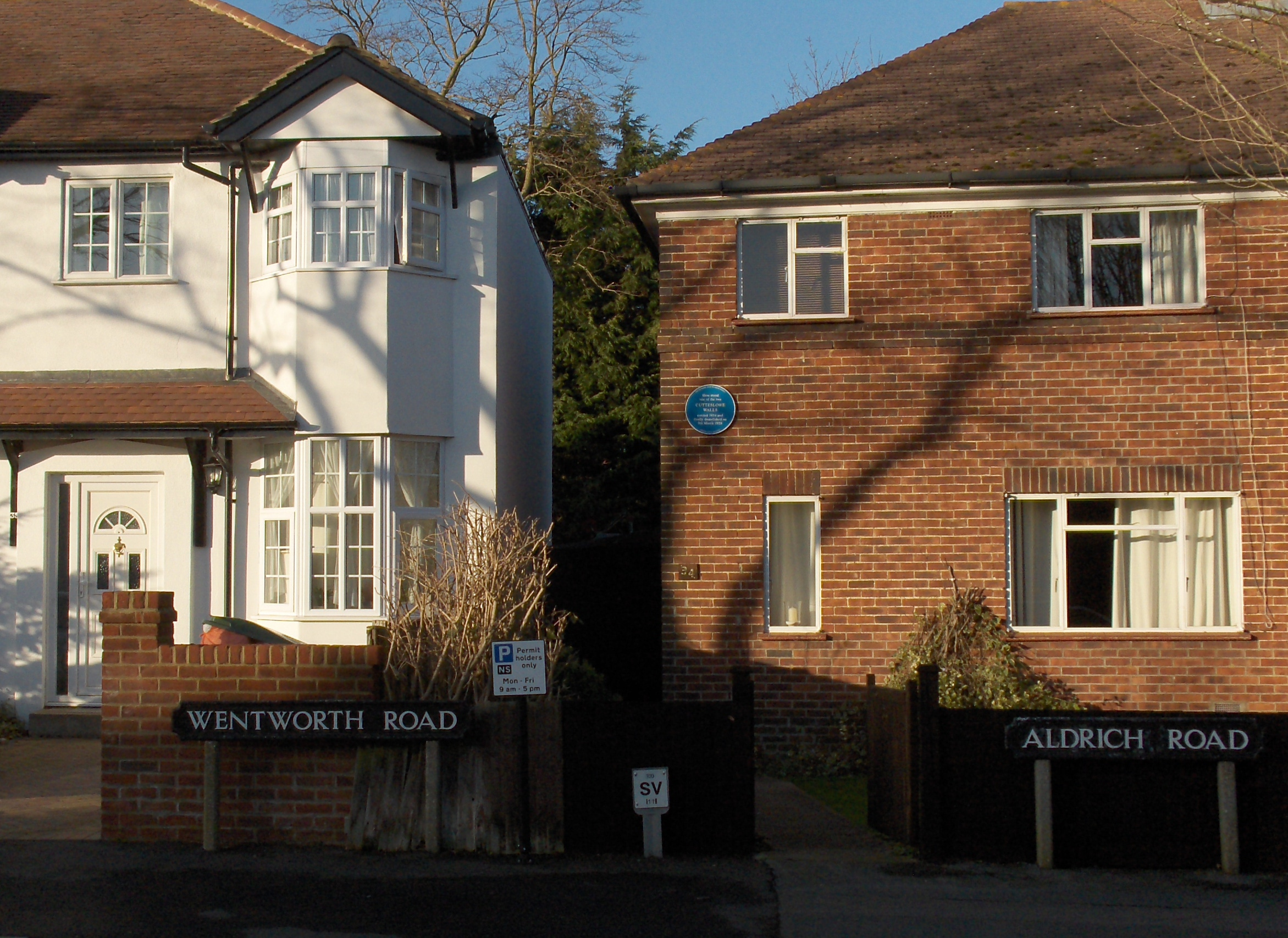 The site of one of the former Cutteslowe Walls; the house on the left is in Wentworth Road, while the house on the right (with the blue plaque) is on Aldrich Road. The architecture changes abruptly at this point, where the council estate was formerly separated from the more expensive private housing by a high wall.